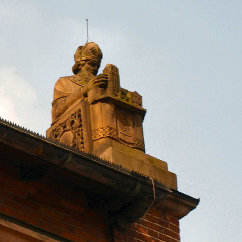 St Augustinus, Nordhon